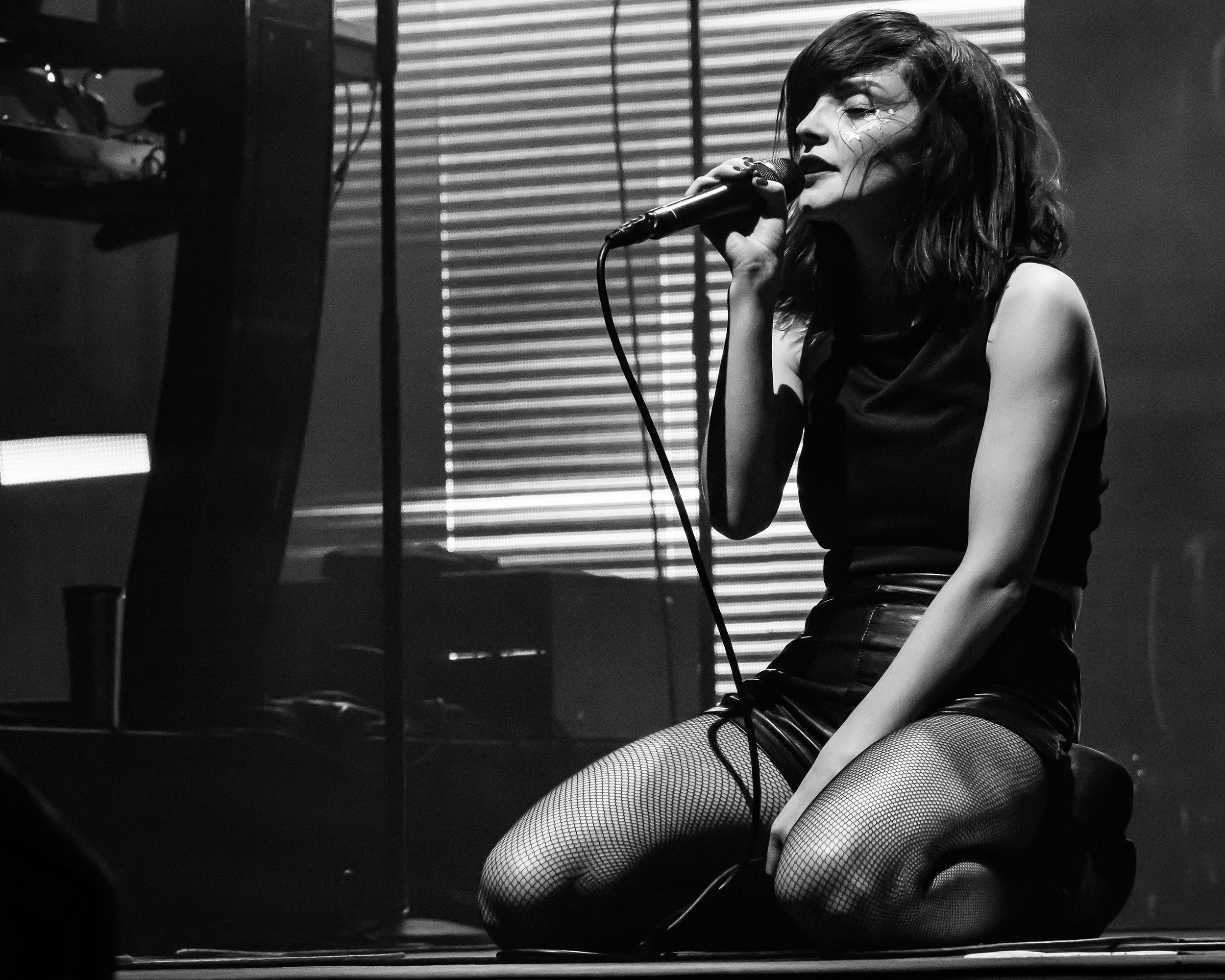 Chvrches performing live on the Fairbanks Lawn at Hollywood Forever in Los Angeles, California, on Monday, October 3rd, 2016. Best Coast opened.